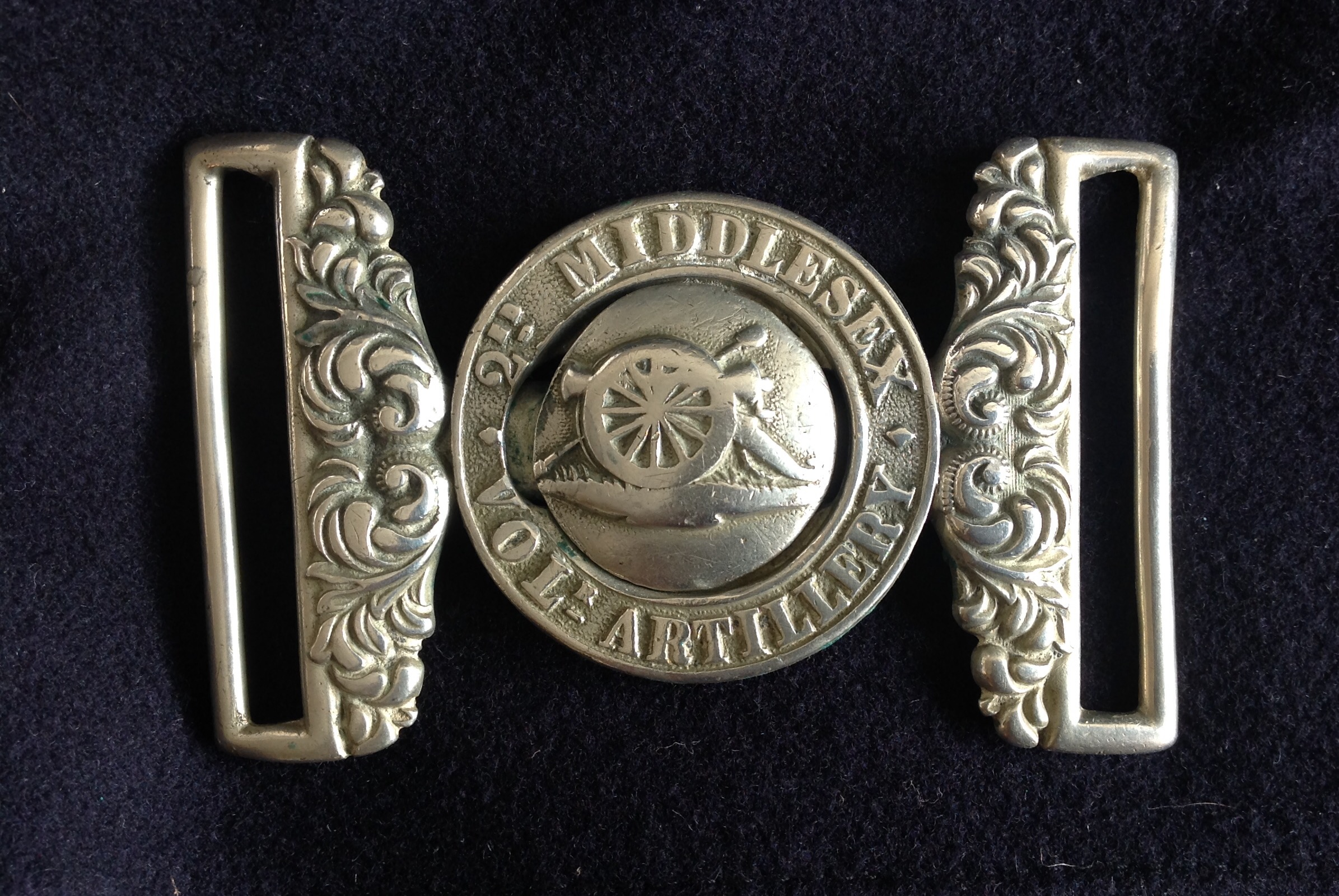 Waistbelt clasp of the 2nd Middlesex Volunteer Artillery, post 1891